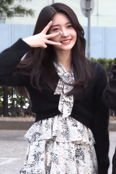 EVERGLOW (에버글로우) E:U 시현 MIA ONDA AISHA 이런 29일 KBS 뮤직뱅크에 에버글로우가 출근하고 있다